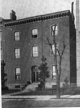 The home of American lawyer and politician Edwin Stanton in Washington, D.C.